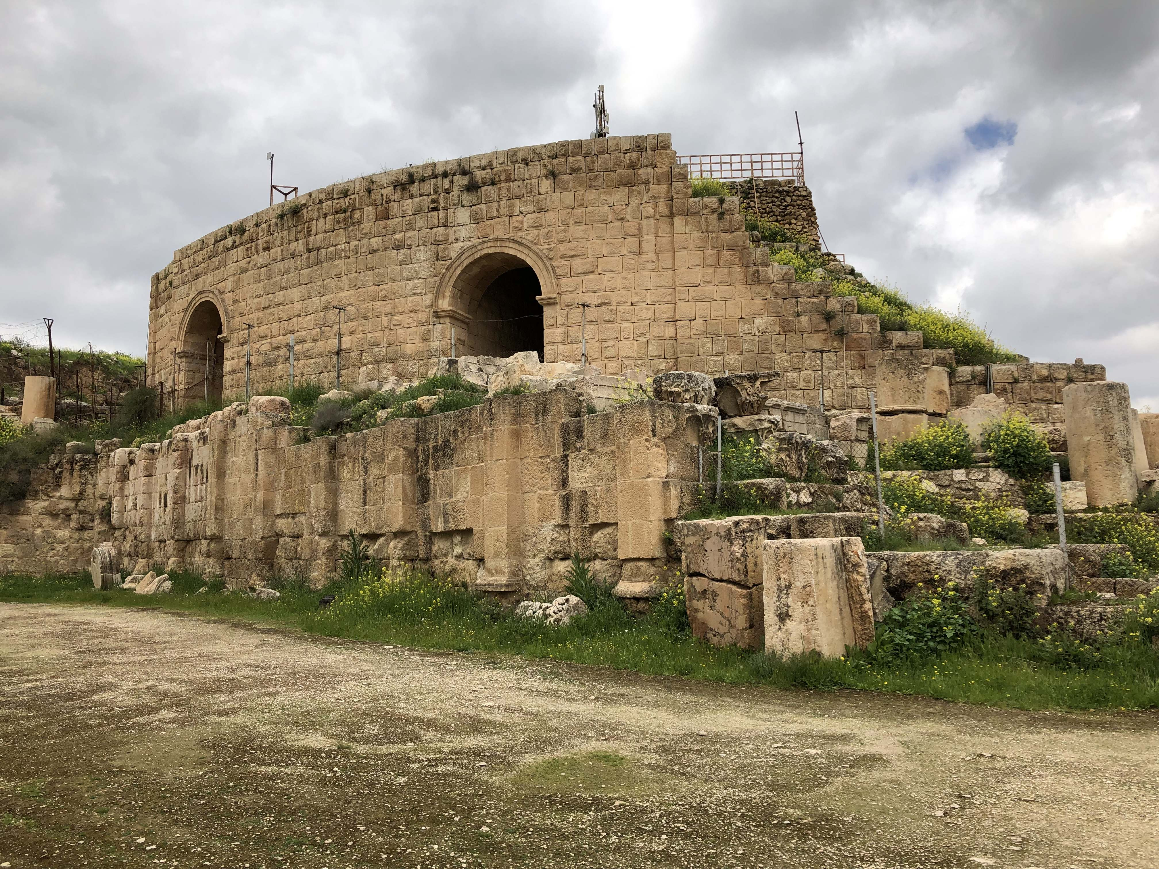 South Theater (Jerash)